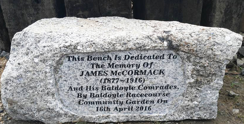 Commemorative bench and plaque dedicated to activist and revolutionary hero, James McCormack, killed in the Easter Rebellion/the Easter Rising of 1916 in Dublin, Ireland.